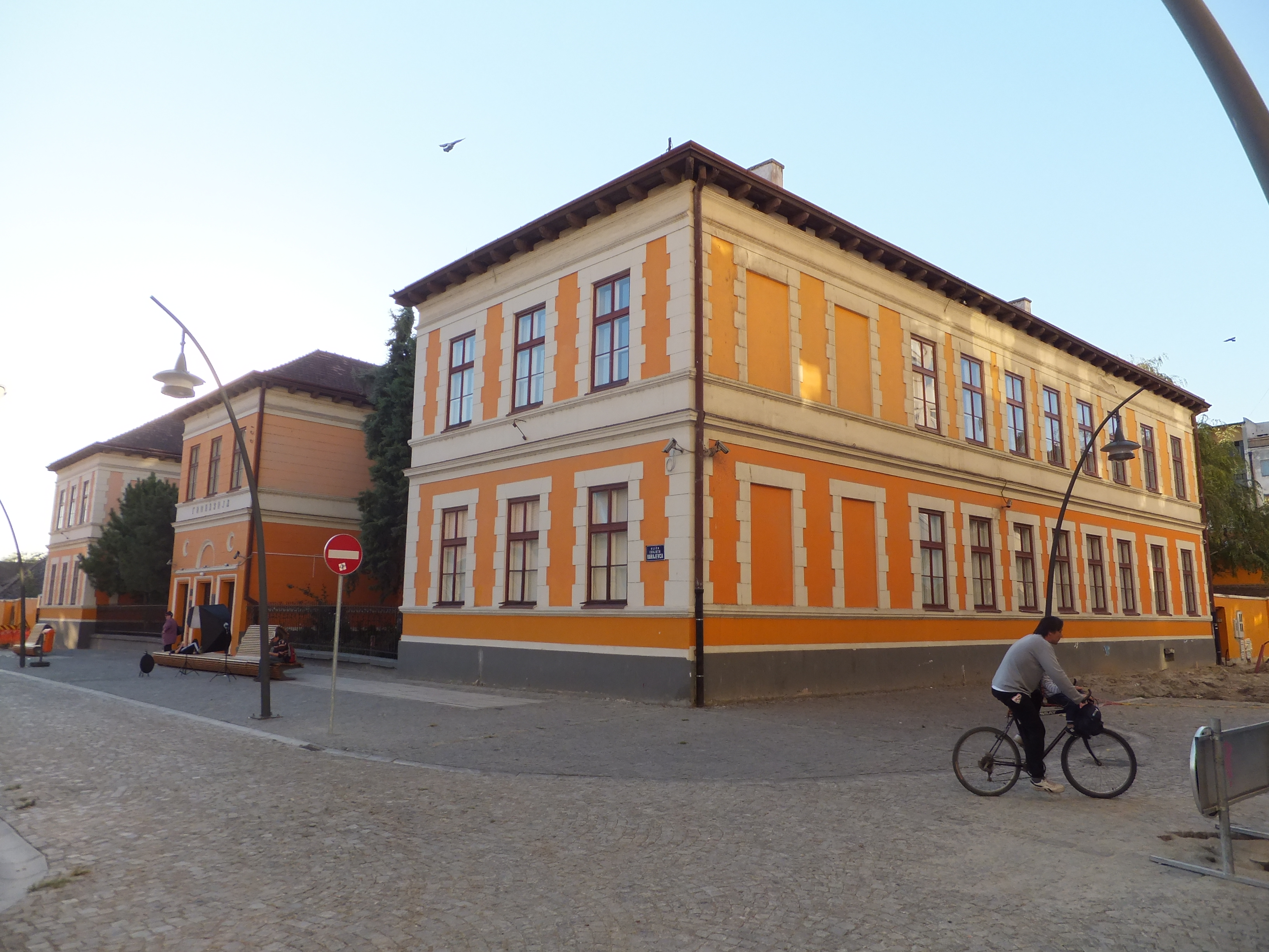 Building of Gymnasium "Uros Predic" in Pancevo.